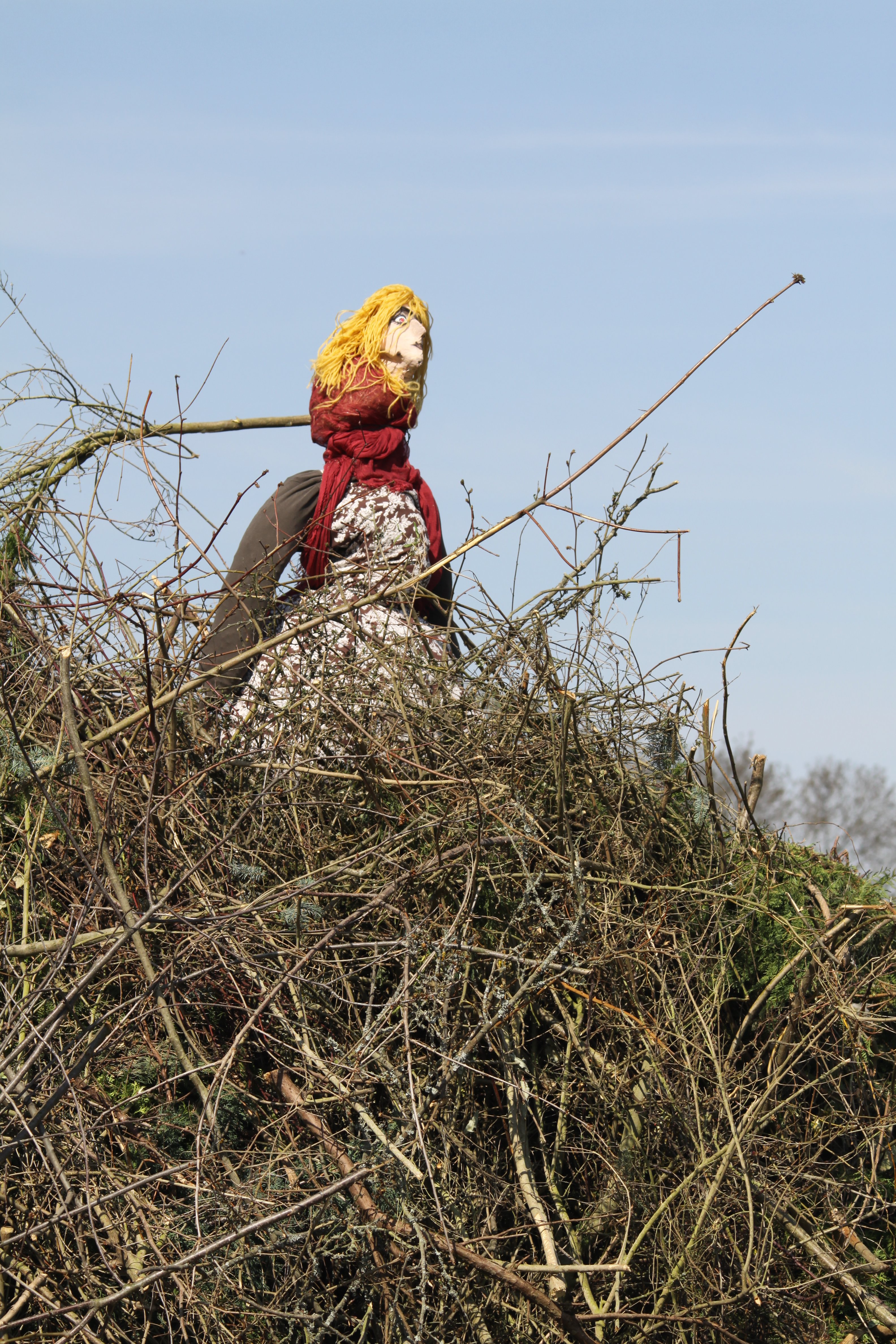 Walpurgis Night in Jesenice in Prague-West District, Czech Republic